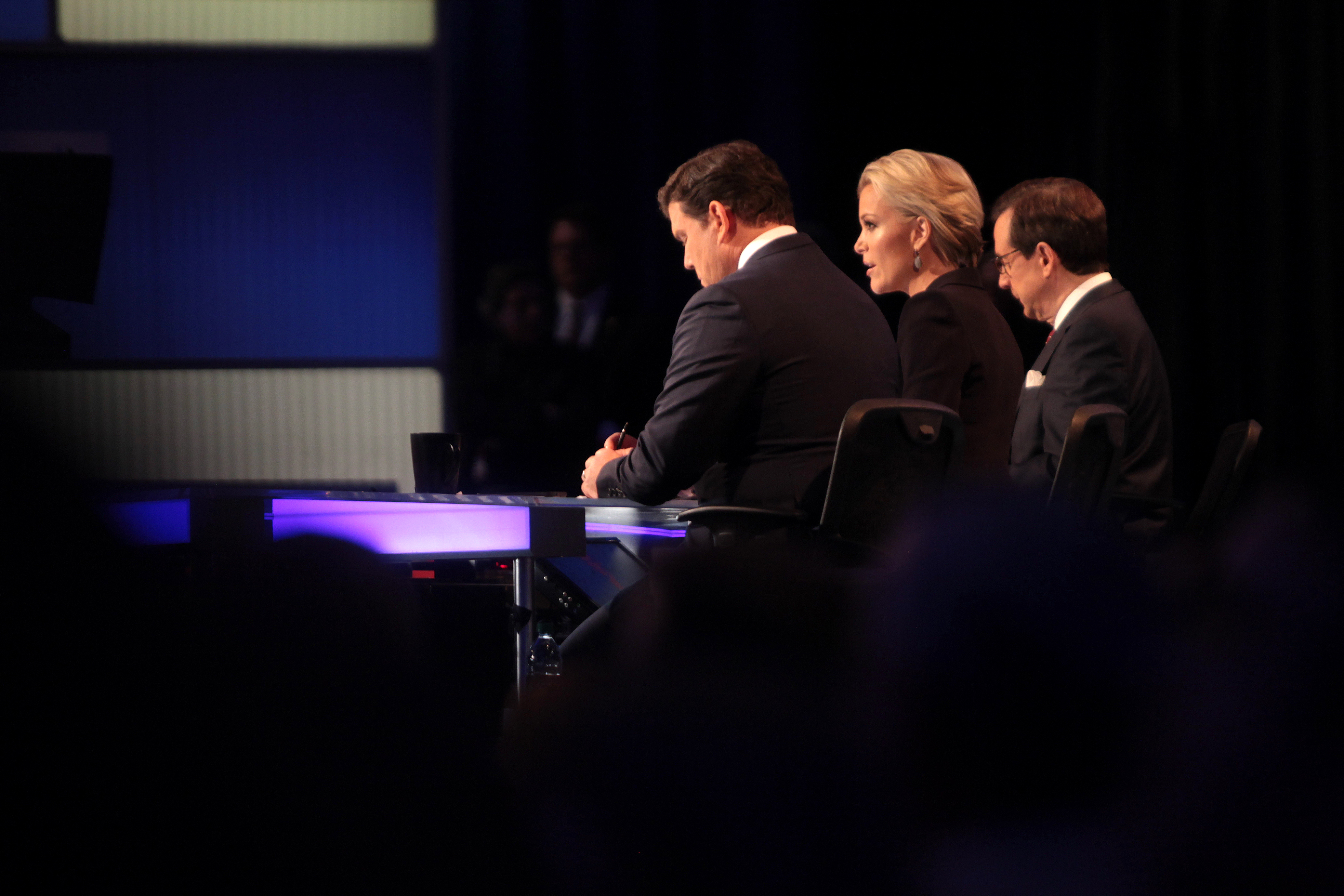 Bret Baier, Megyn Kelly and Chris Wallace speaking at the final Republican Party debate, hosted by Fox News, before the 2016 Iowa caucuses at the Iowa Events Center in Des Moines, Iowa.